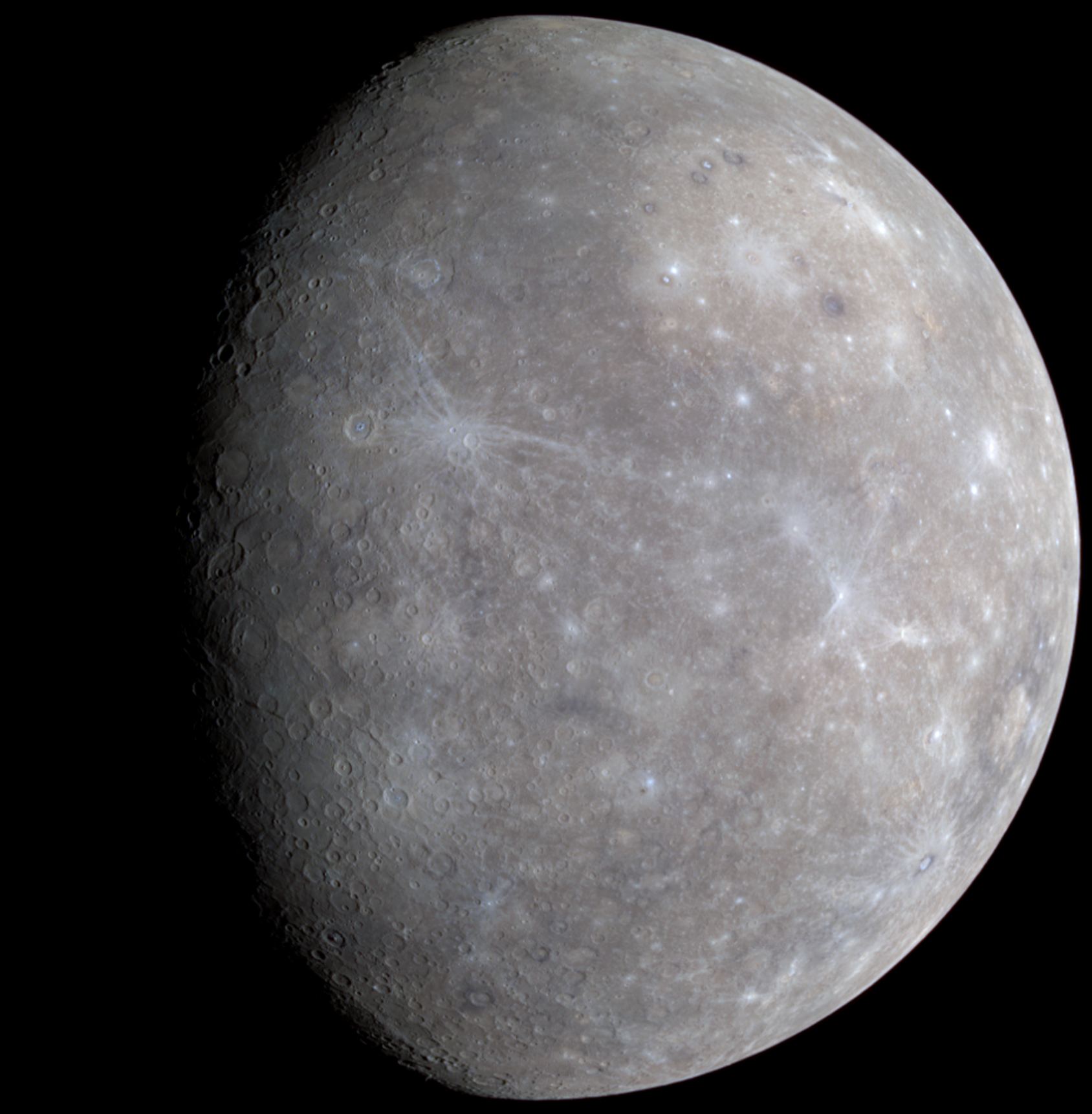 Full color image of from first MESSENGER flyby